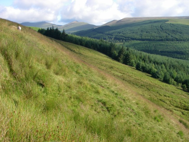 Tarren Tormwnt The hillside overlooks the afforested Cwm Taf Fechan with distant views to the Brecon Beacons - Cribyn takes centre stage.